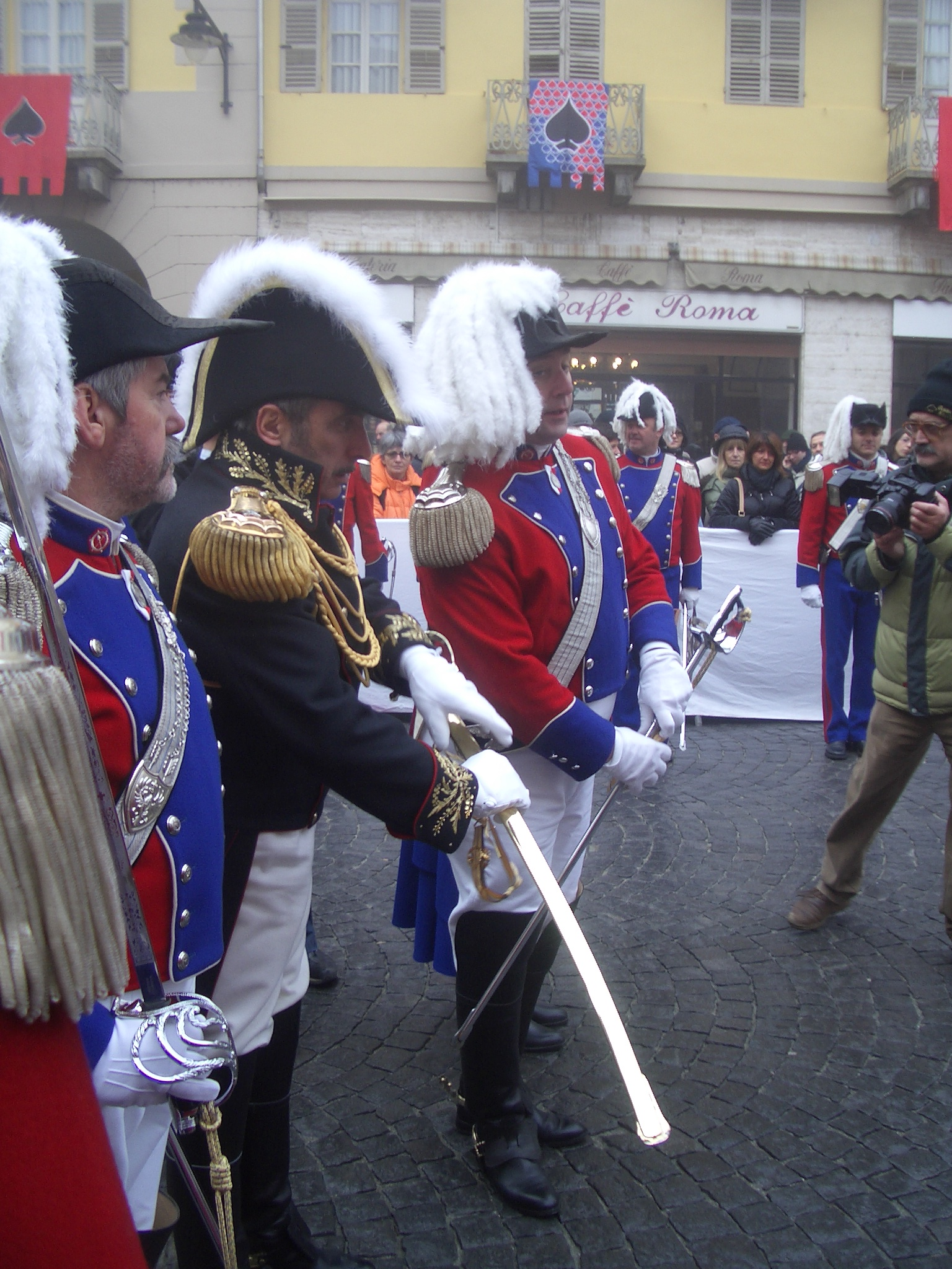 Carnival of Ivrea, The General during the ceremony called Prise du drapeau (The take of the flag)